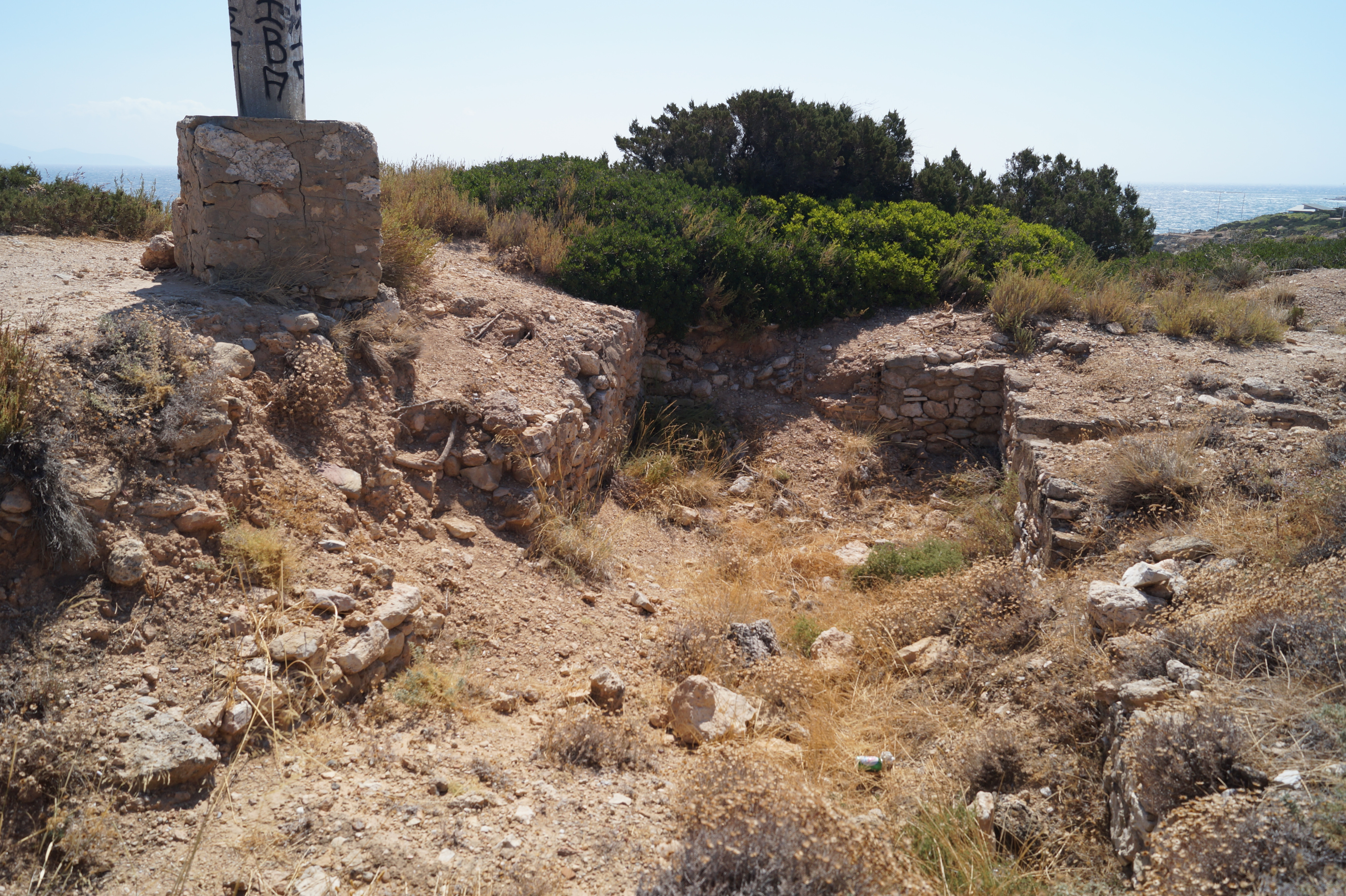 Rafina, Attica, Greece: Bunker of the Wehrmacht in World War II on the archaeological sites of Askitario.